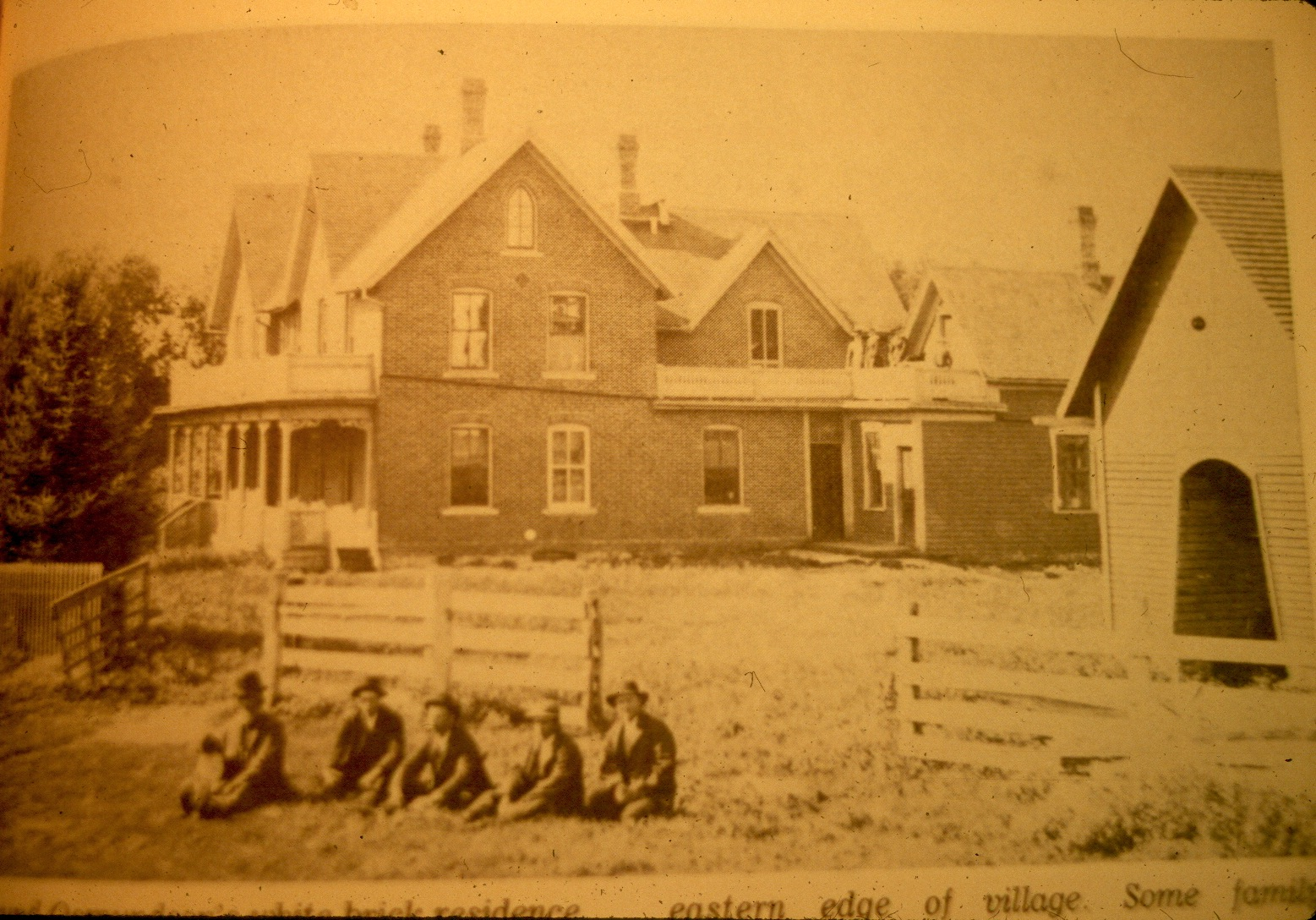 Photo of the Osmund Osmundson House, Nerstrand, Minnesota, USA.